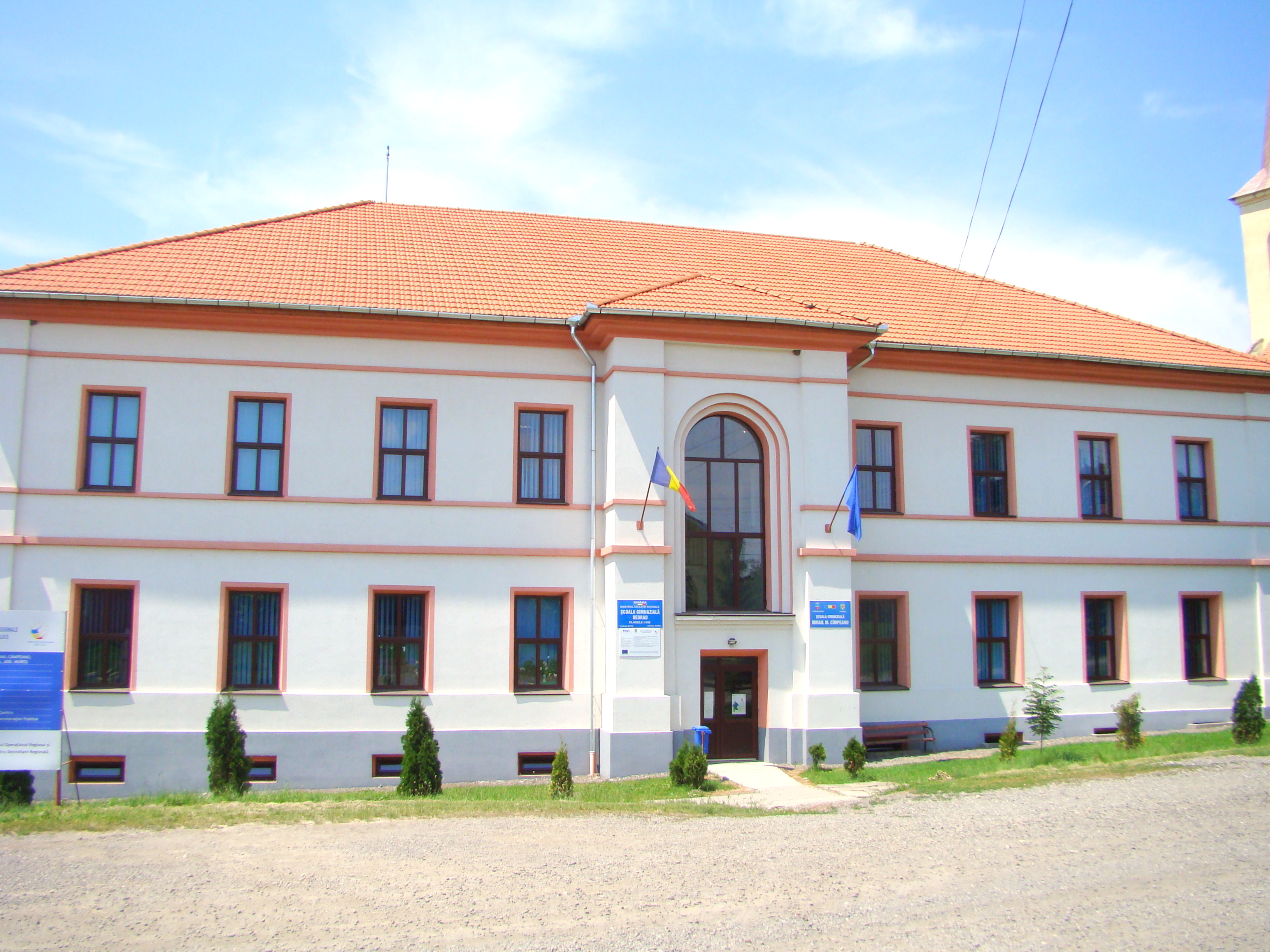 Dedrad, Mureș county, Romania